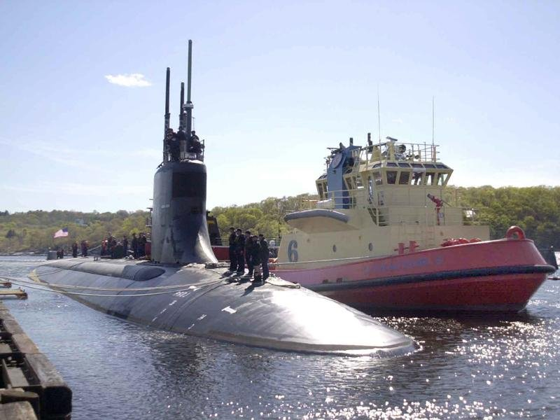 Groton, CT (May 1, 2002) -- USS Connecticut (SSN 22), the Navy's newest fast attack, nuclear submarine, departs her homeport of Submarine Base New London on her first, scheduled deployment. U.S. Navy photo by Journalist Seaman Apprentice Woody Paschall. (RELEASED)